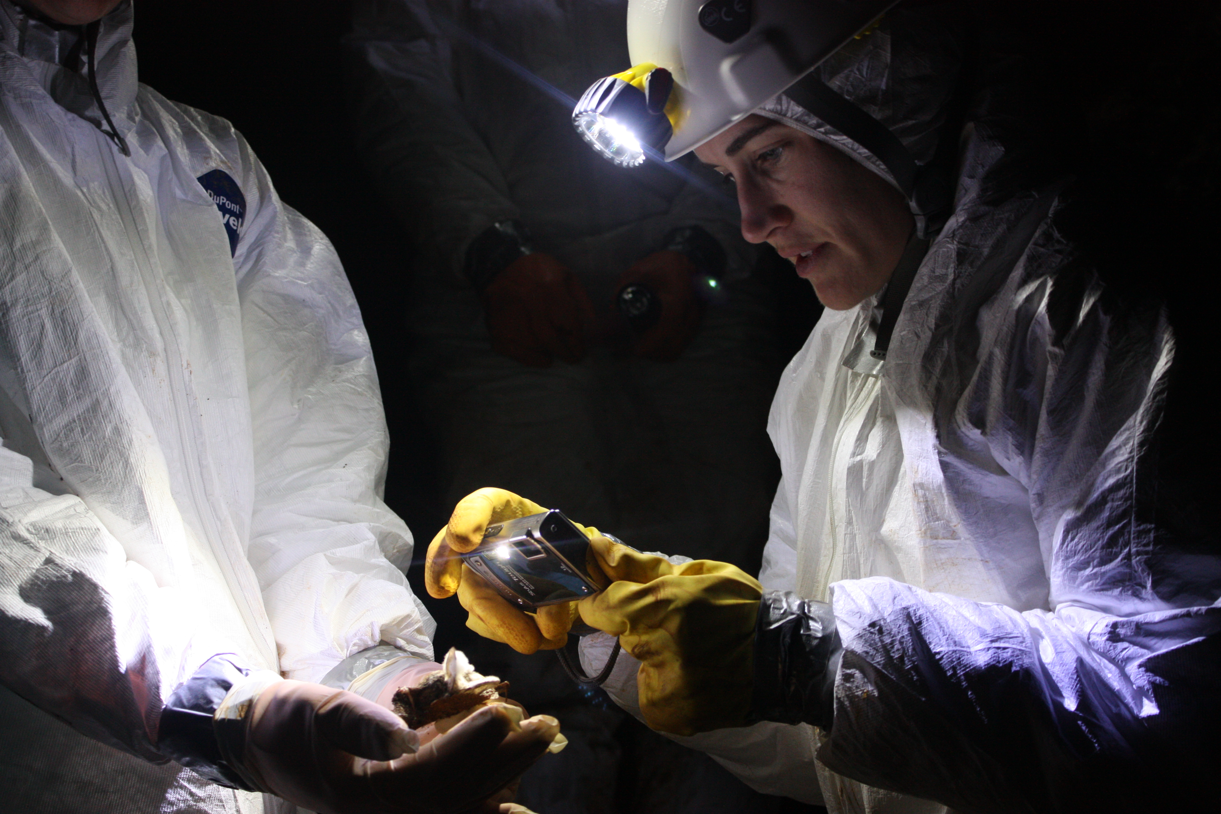 Gabrielle Graeter with the North Carolina Wildlife Resources Commission photographs one of two dead bats found in the mine. Following protocol the bats will be sent to a lab at the University of Georgia to be tested for white-nose syndrome. Credit: Gary Peeples/USFWS